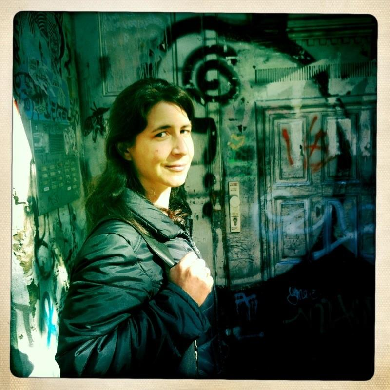 Orit Nahmias. Berlin